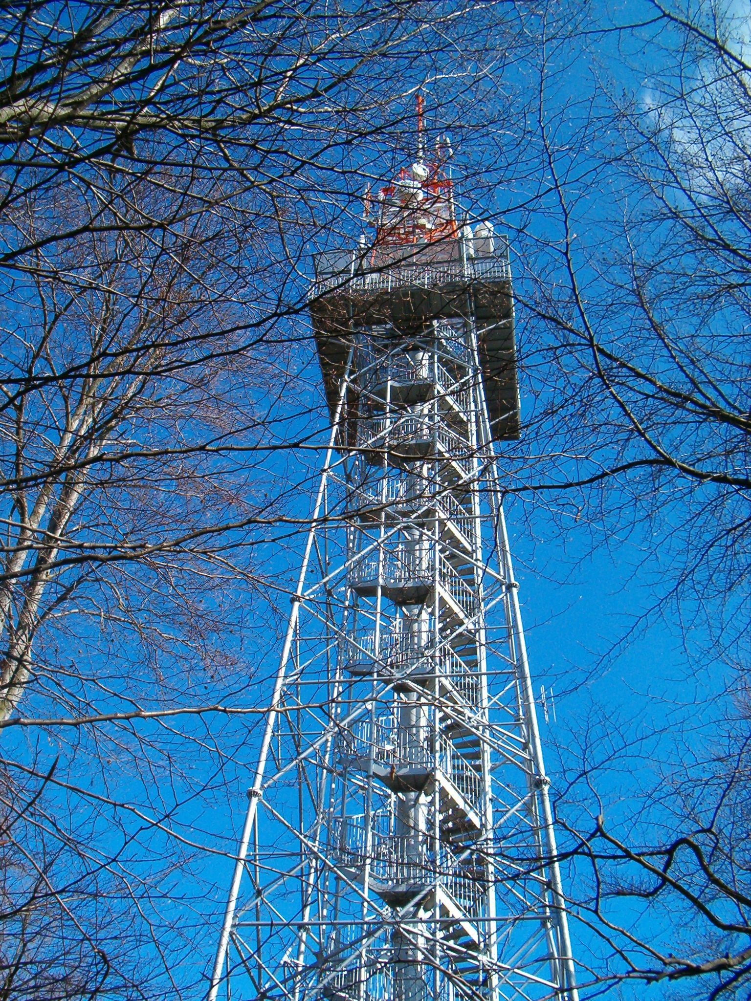 Jarník lookout tower in „Písecké hory“ area near Písek town. 2007